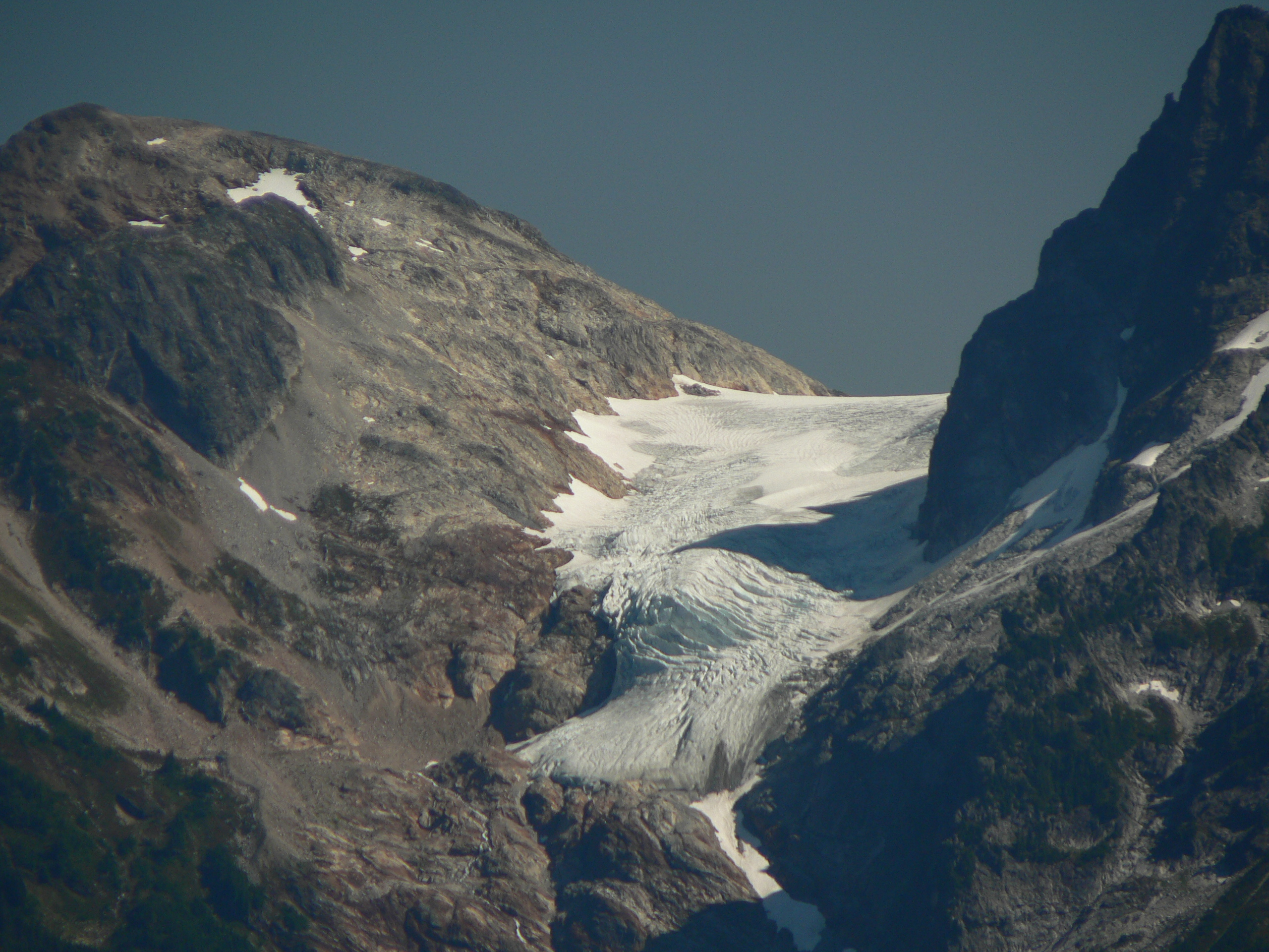 Ladder Creek Glacier (branch of Neve Glacier), point 7505 feet (left)